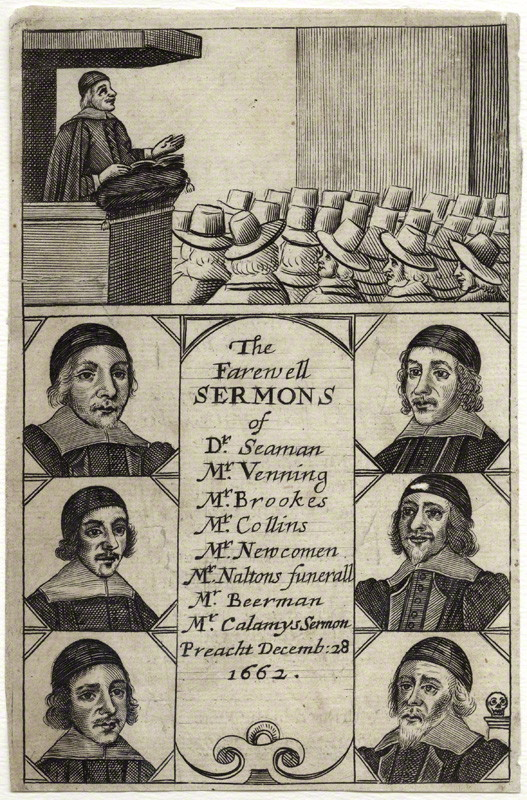 Title page of Farewell Sermons (1663), a collective volume of sermons by ejected ministers (see Great Ejection).